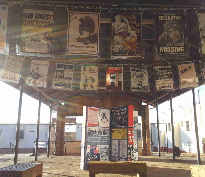 Image is of a traveling exhibition kit produced by the South African History Archive under the Struggles for Justice Programme. This exhibition kit commemorates the June 16th Soweto student protests.